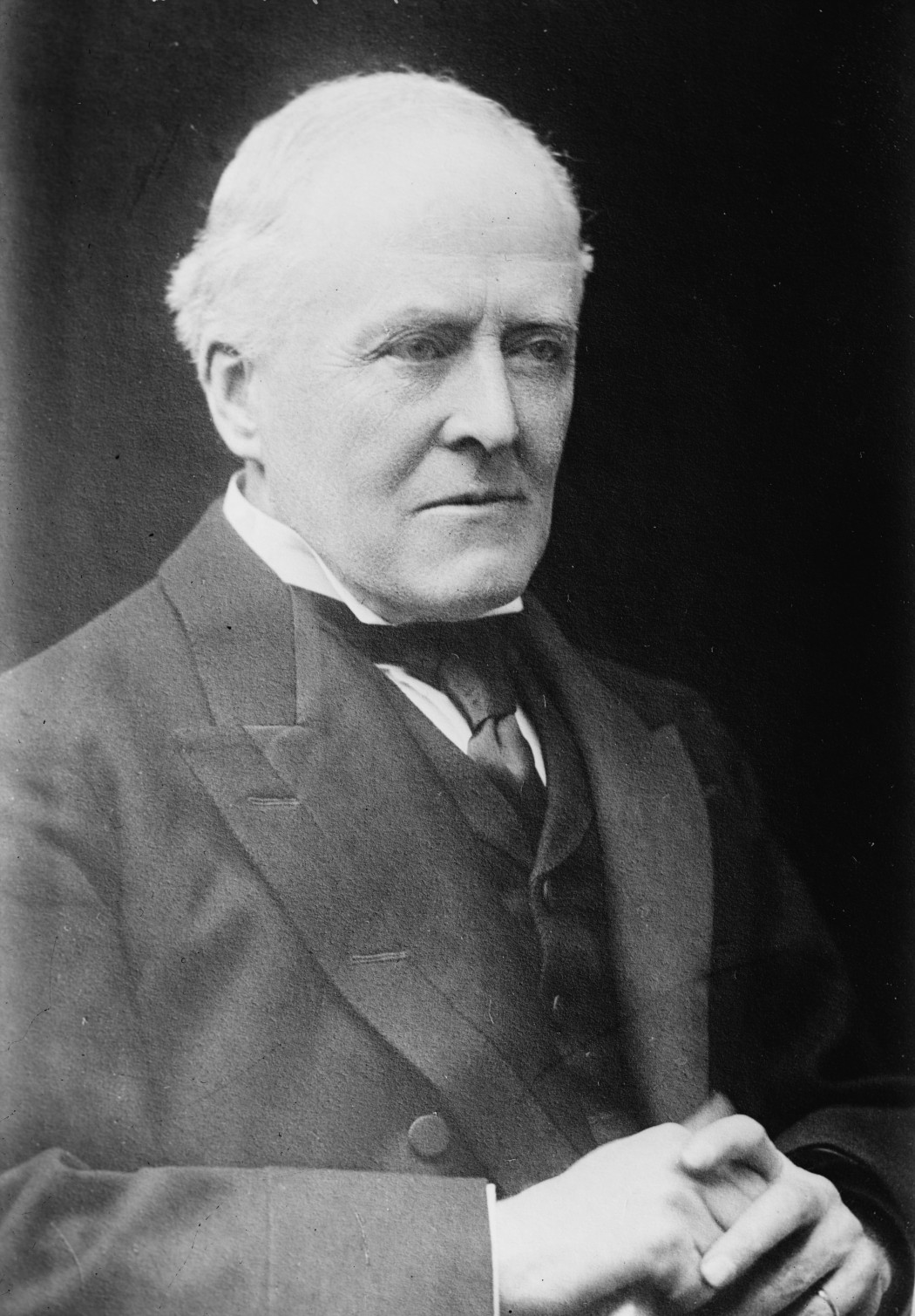 A portrait photograph of Charles Alfred Cripps, 1st Baron Parmoor, K.C.V.O., P.C., Q.C. (3 October 1852 – 30 June 1941), a British politician who crossed the floor from the Conservative to the Labour Party and was a strong supporter of the League of Nations and of Church of England causes.